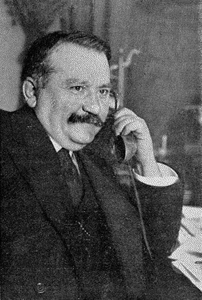 Photo de Gaston Doumergue à son bureau au début de décembre 1913. Le gouvernement qu'il s'apprête à former durera du 9 décembre 1913 au 2 juin 1914. Photo parue dans L'Illustration du 13 décembre 1913.